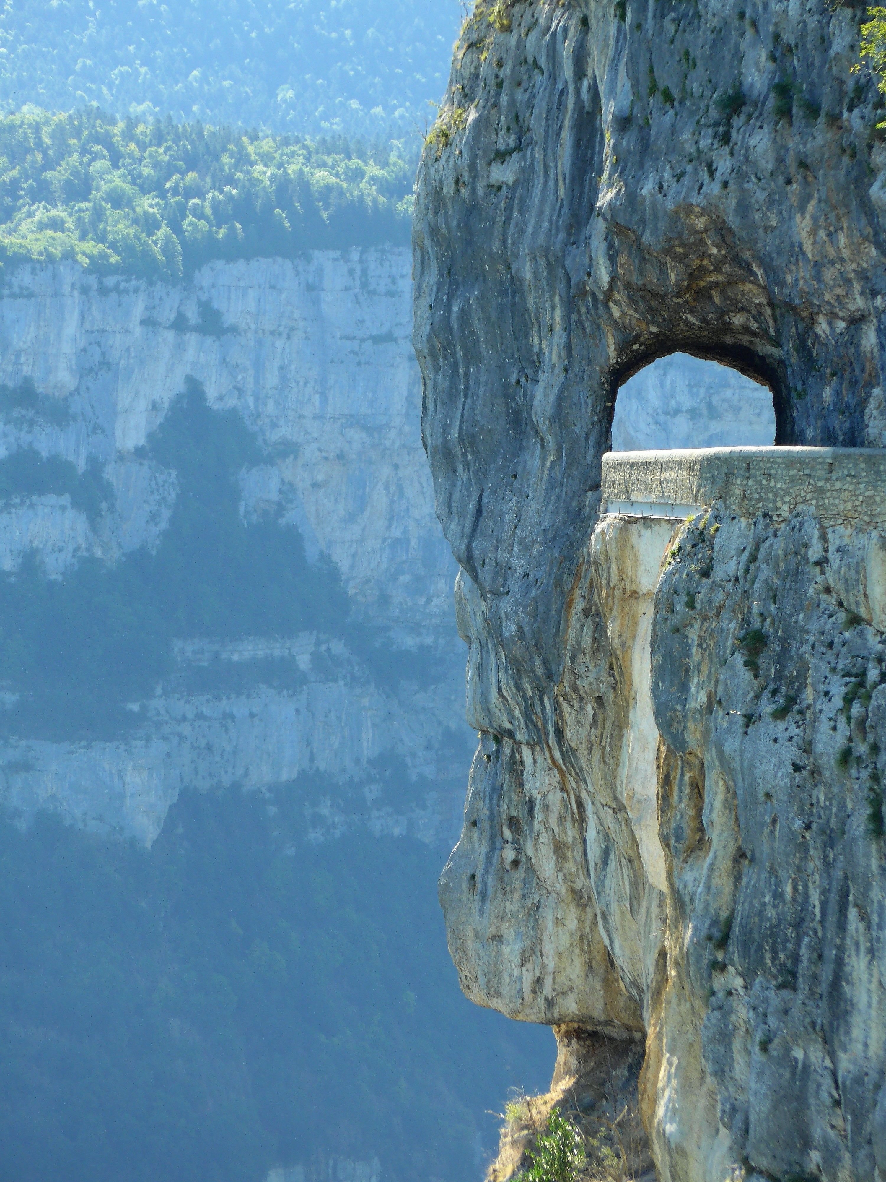 Combe Laval is a canyon of the Vercors massif, pre-Alps.